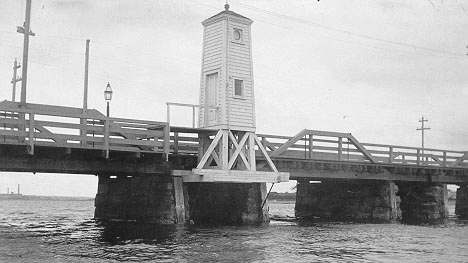 Fairhaven Bridge Light (also known as Fairhaven Bridge Range Light), Fairhaven, Massachusetts, USA, circa 1890